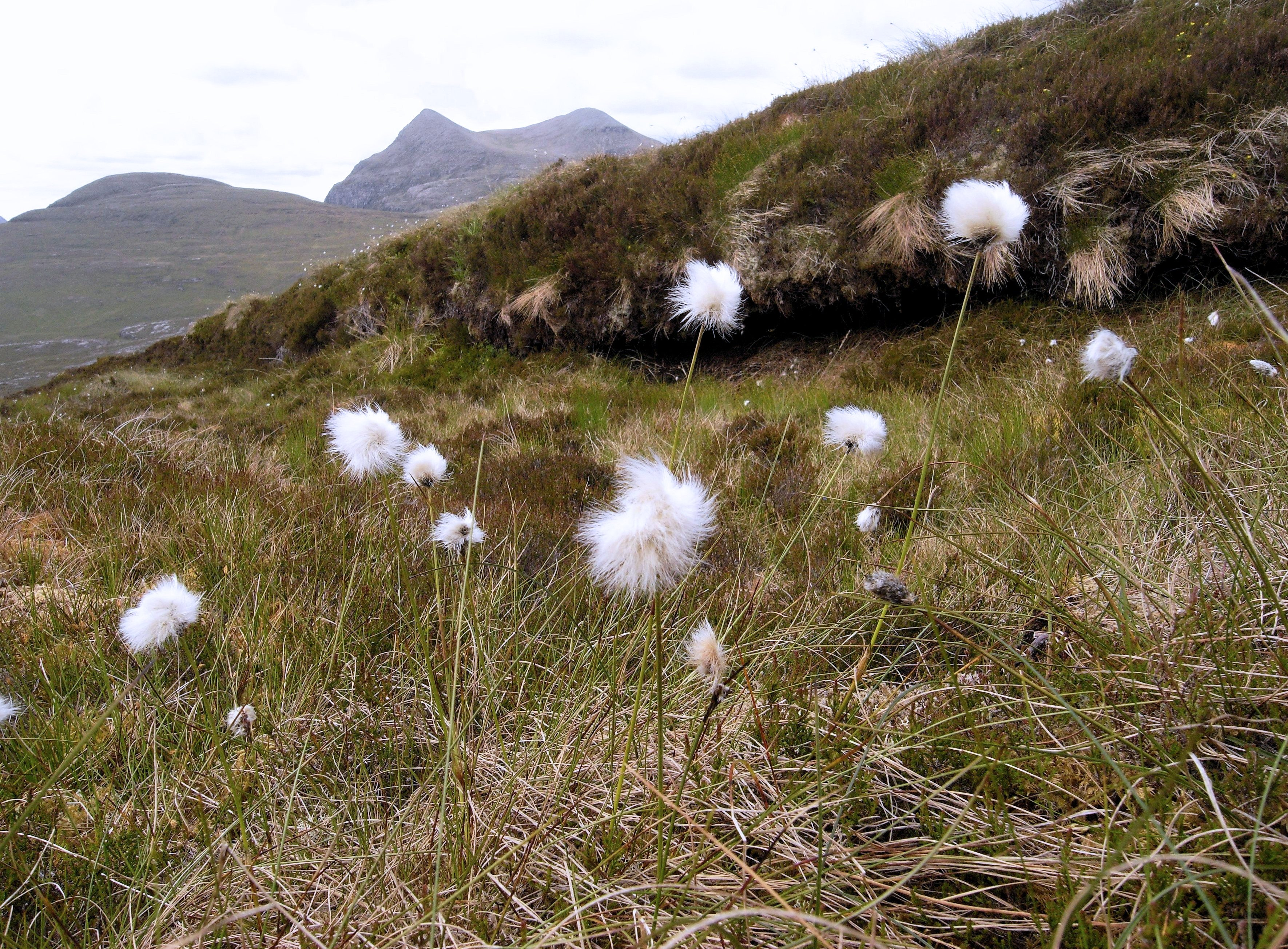 Knockan Crag (Northwest Highlands, Scotland, UK)